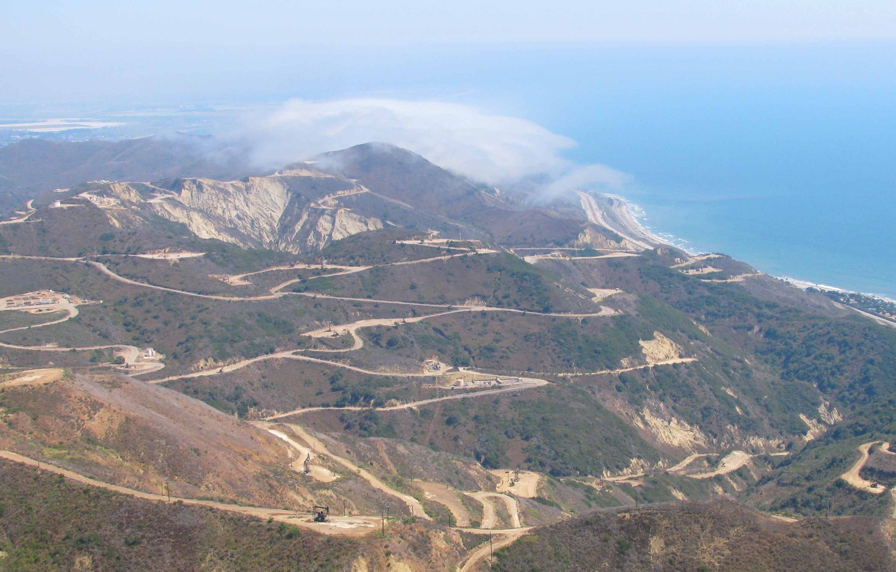 photograph of the San Miguelito field, from the air; my own work; GFDL/equiv